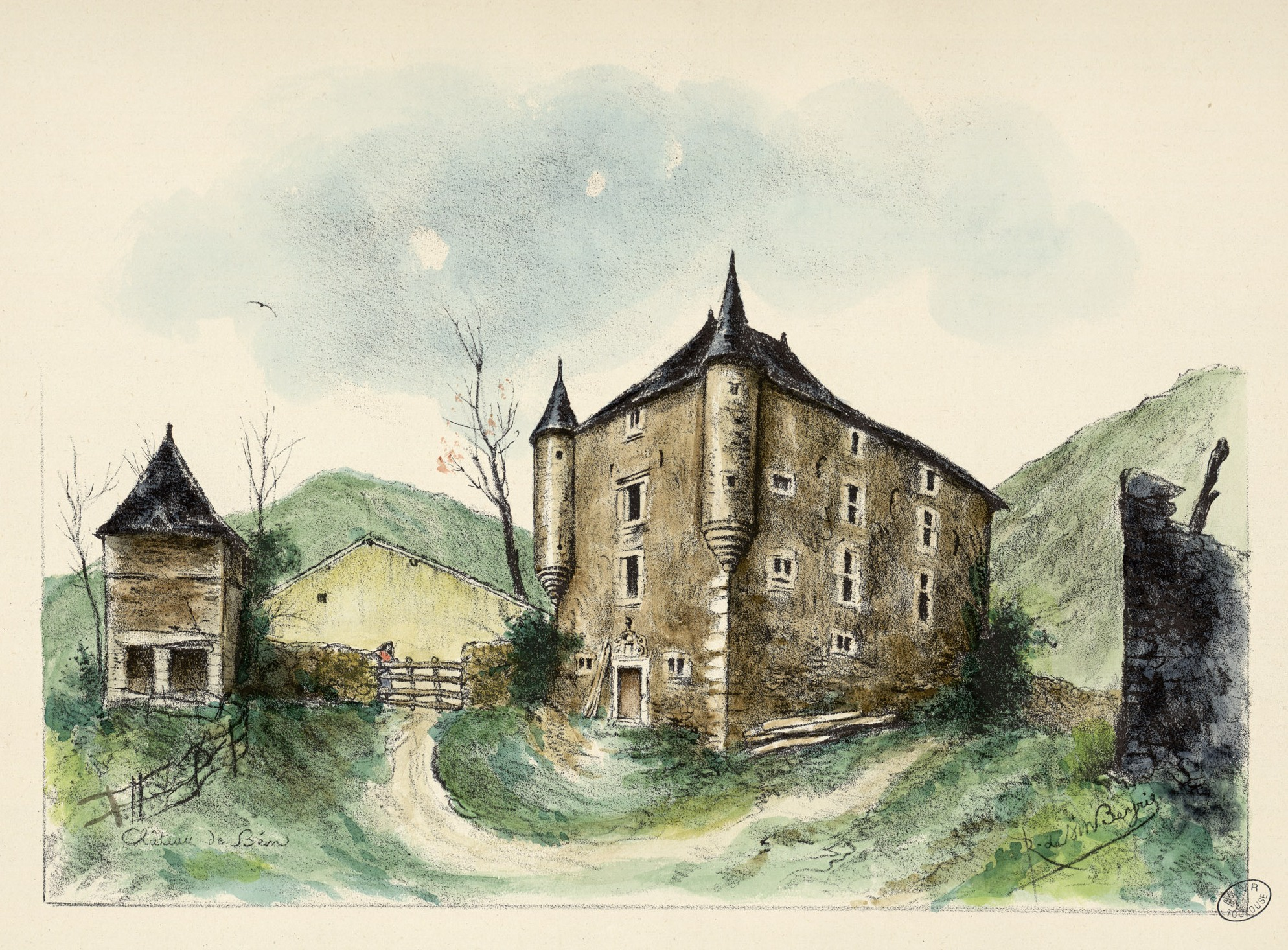 A painting of the Castle of Beon (Occitania)